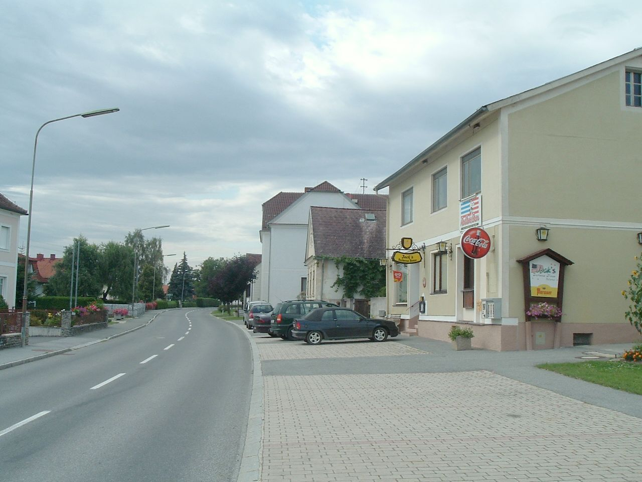 Kleinzicken (Kisciklény)